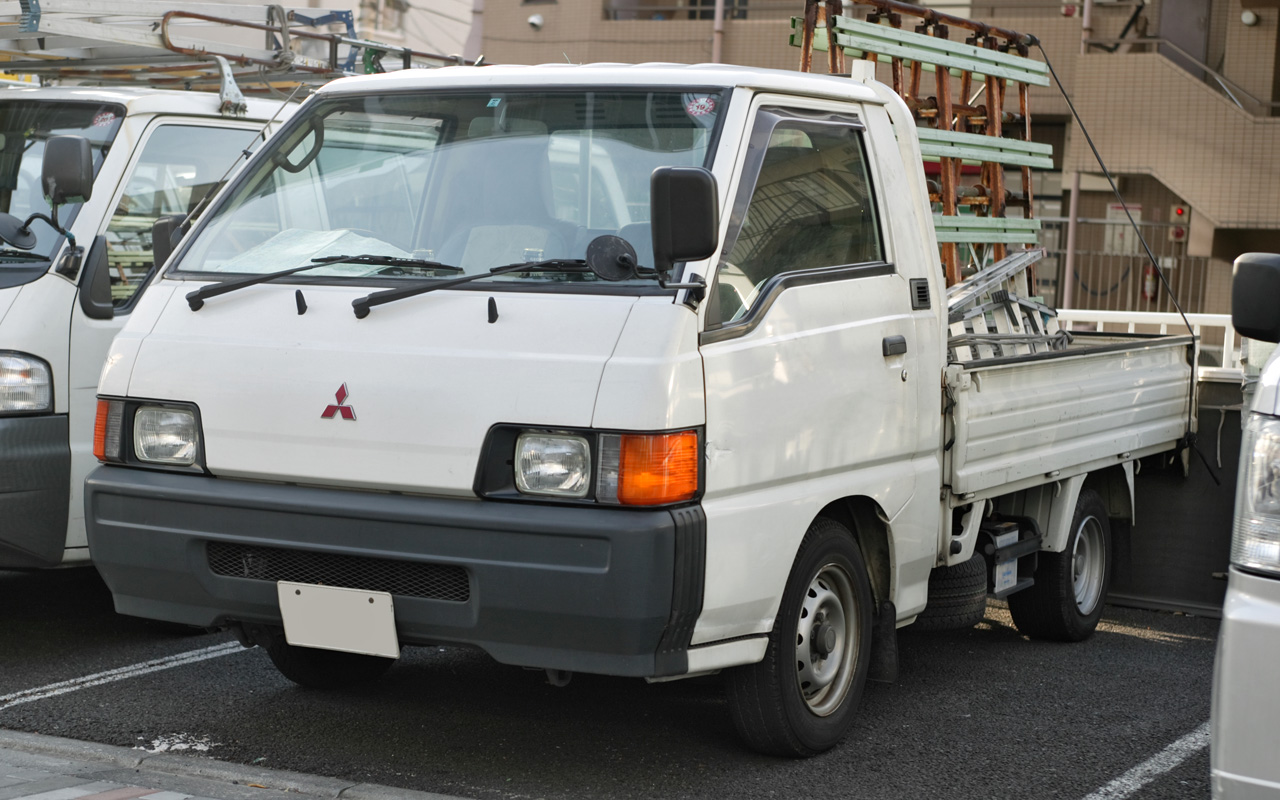 Third generation Mitsubishi Delica truck